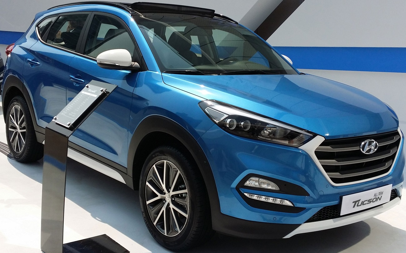 Hyundai All New Tucson